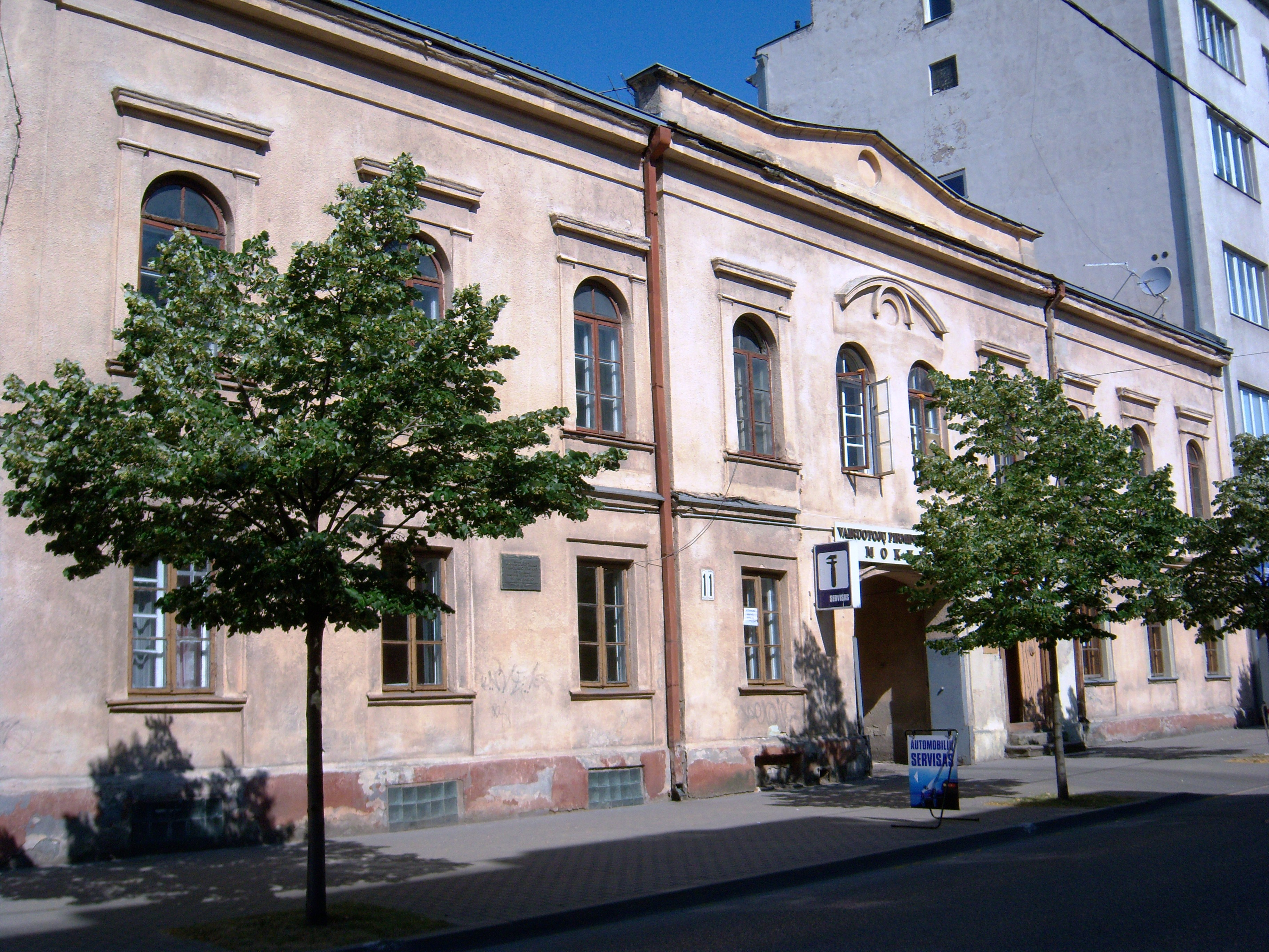 Maironio Street 11, Kaunas, Lithuania